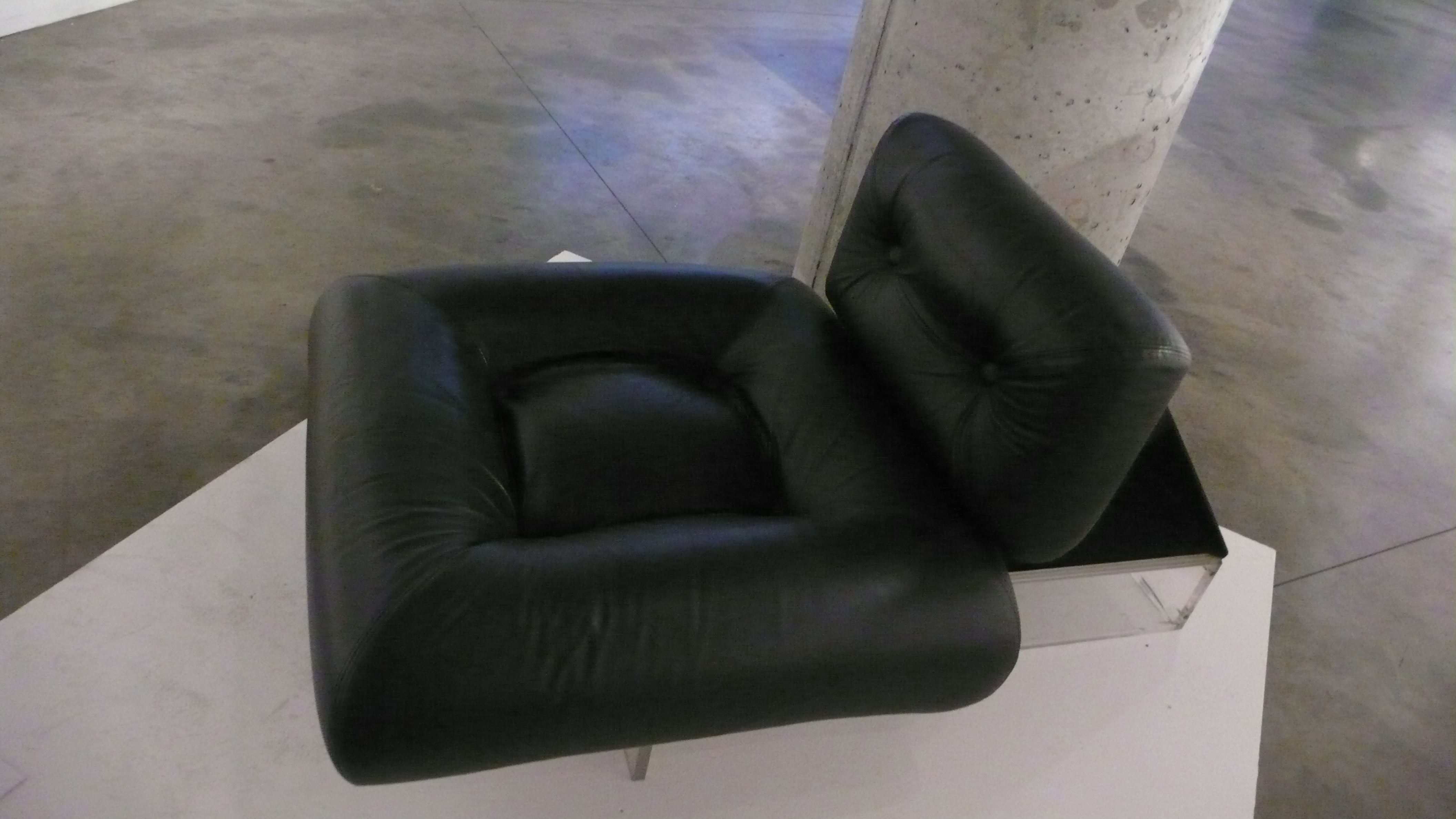 O. and A. Niemeyer, poltrona disegnata per le Cartiere Burgo (oggi Burgo Group)